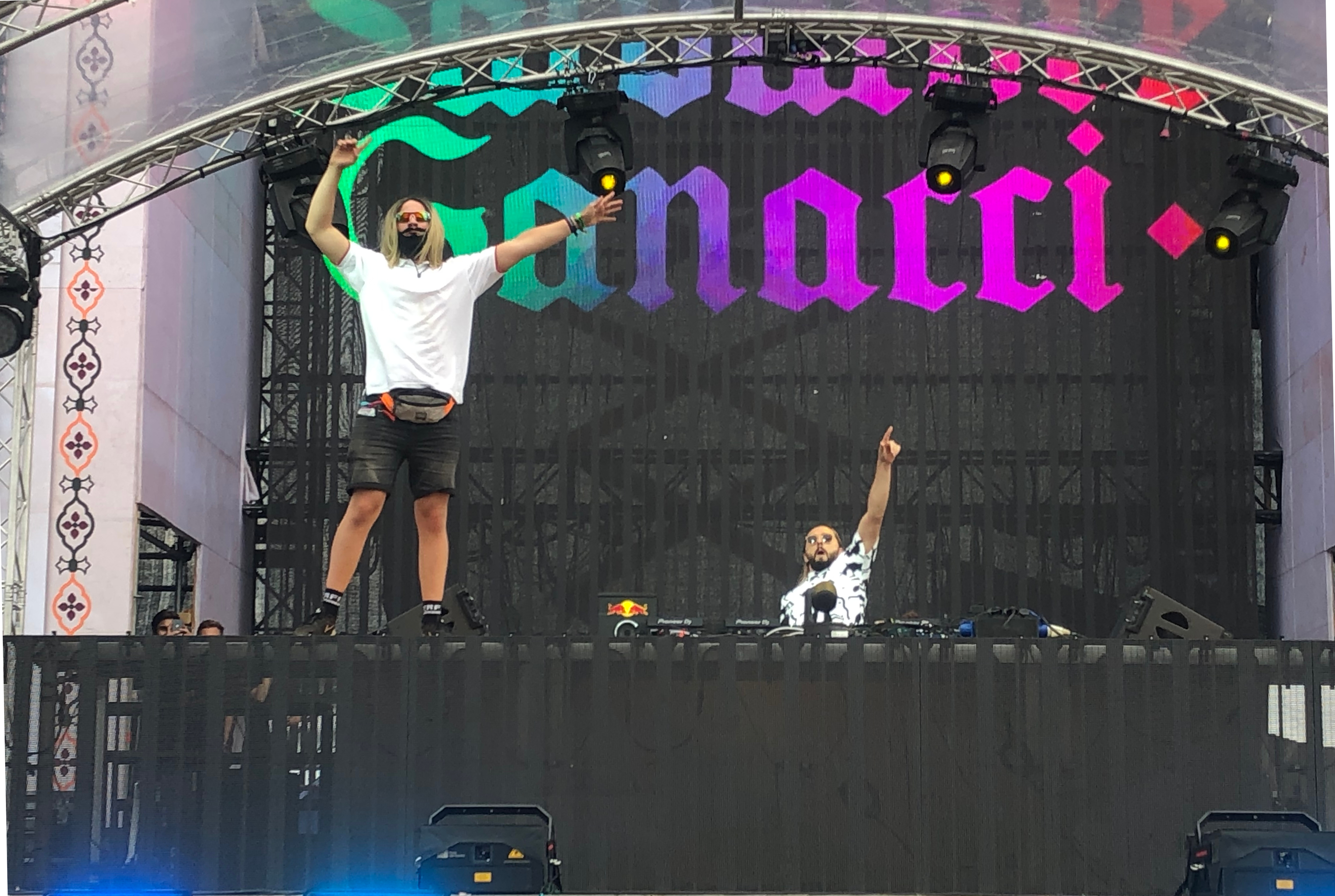 Bosnian-swedish dj Salvatore Ganacci (right) with a look-alike at Airbeat One Festival 2019 in Neustadt-Glewe, Germany.